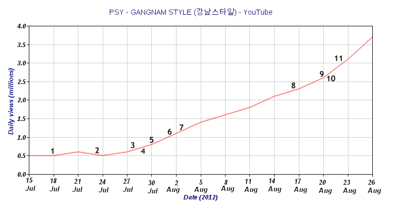 This graph shows the number of daily views attributed to the Gangnam Style music video on Youtube from July 15 2012 to August 26 2012. The graph is generated with data collected from the following sources